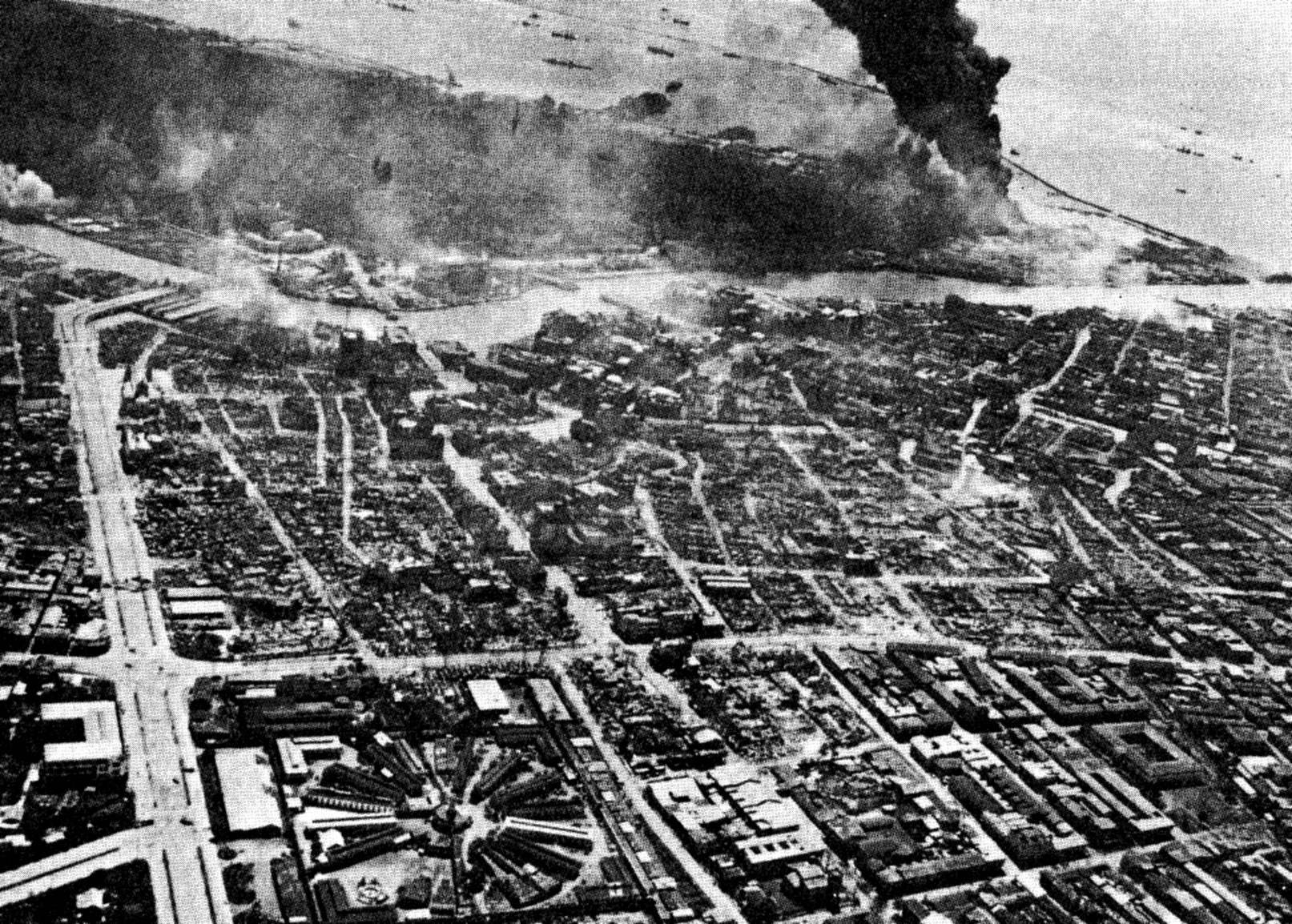 Aerial view of Manila: Bilibid Prizon at lower left; note roadblock on Quezon Boulevard, left center